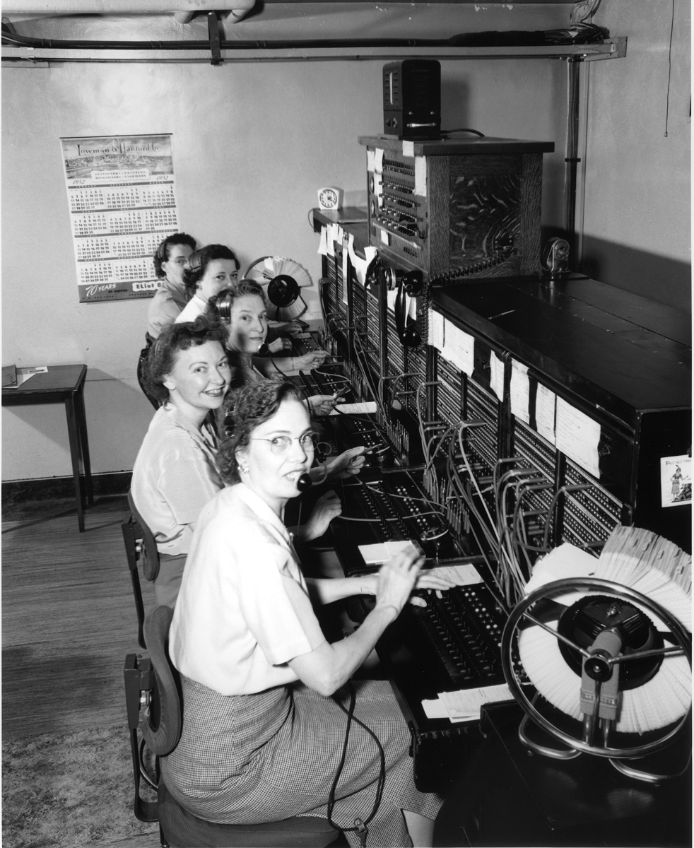 Telephone operators, Seattle, Washington, U.S., 1952. According to a City archivist these were probably Seattle City Light employees. Item 24092, City Light Photographic Negatives (Record Series 1204-01), Seattle Municipal Archives.